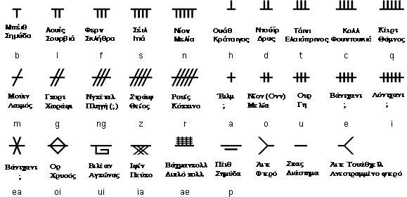 Ogham alphabet with greek titles